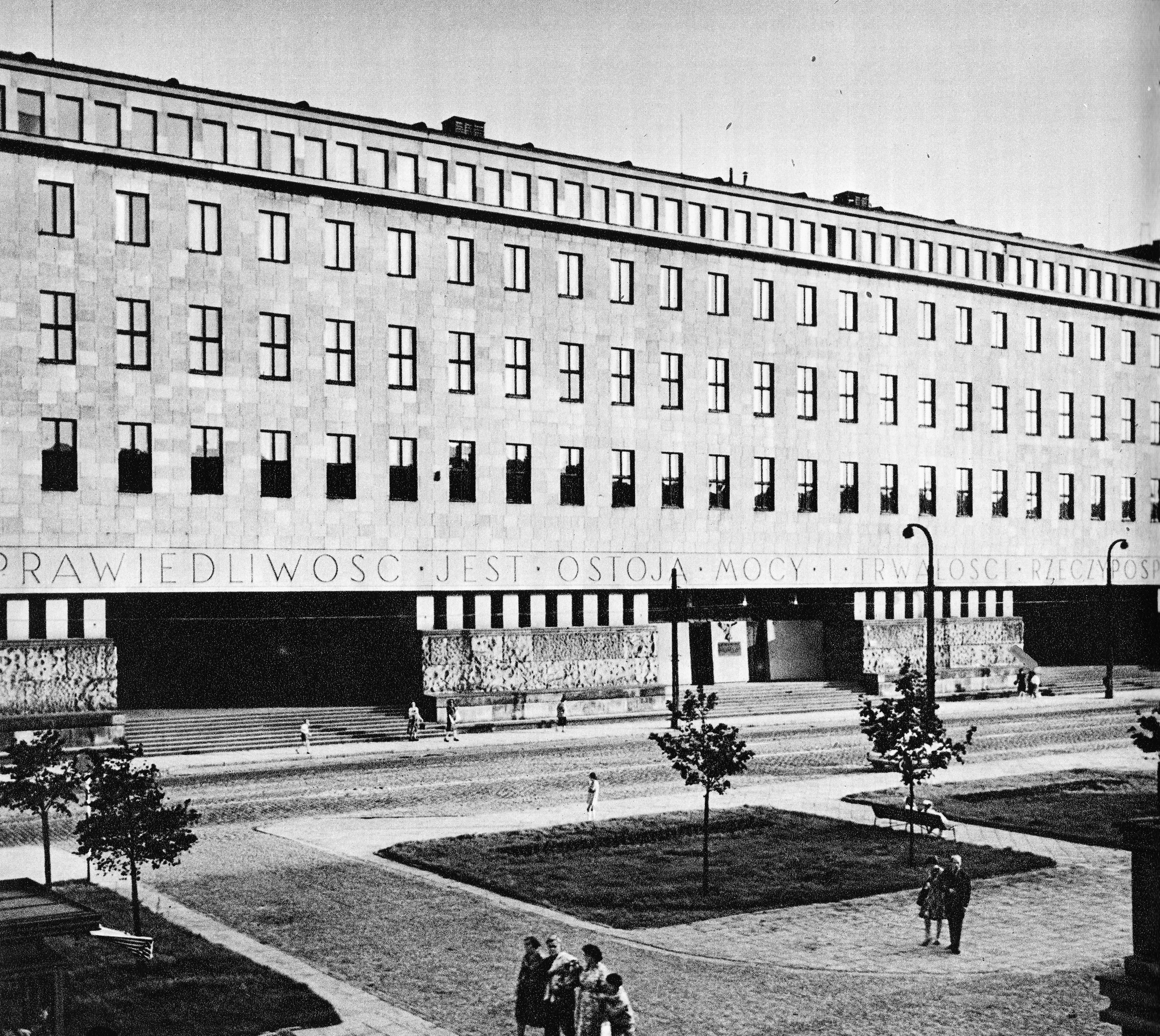 So called Leszno Courthause at 127 Solidarności Avenue